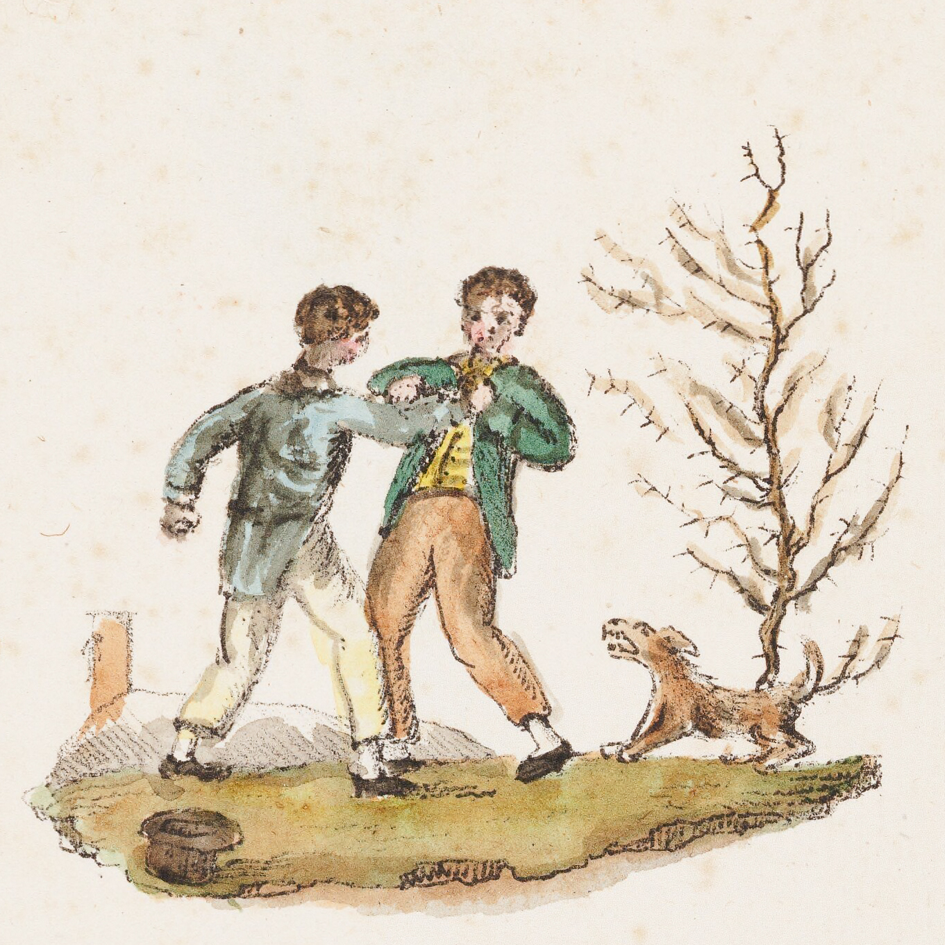 Illustration to verse 7 of the children's poem Old Santeclaus with Much Delight